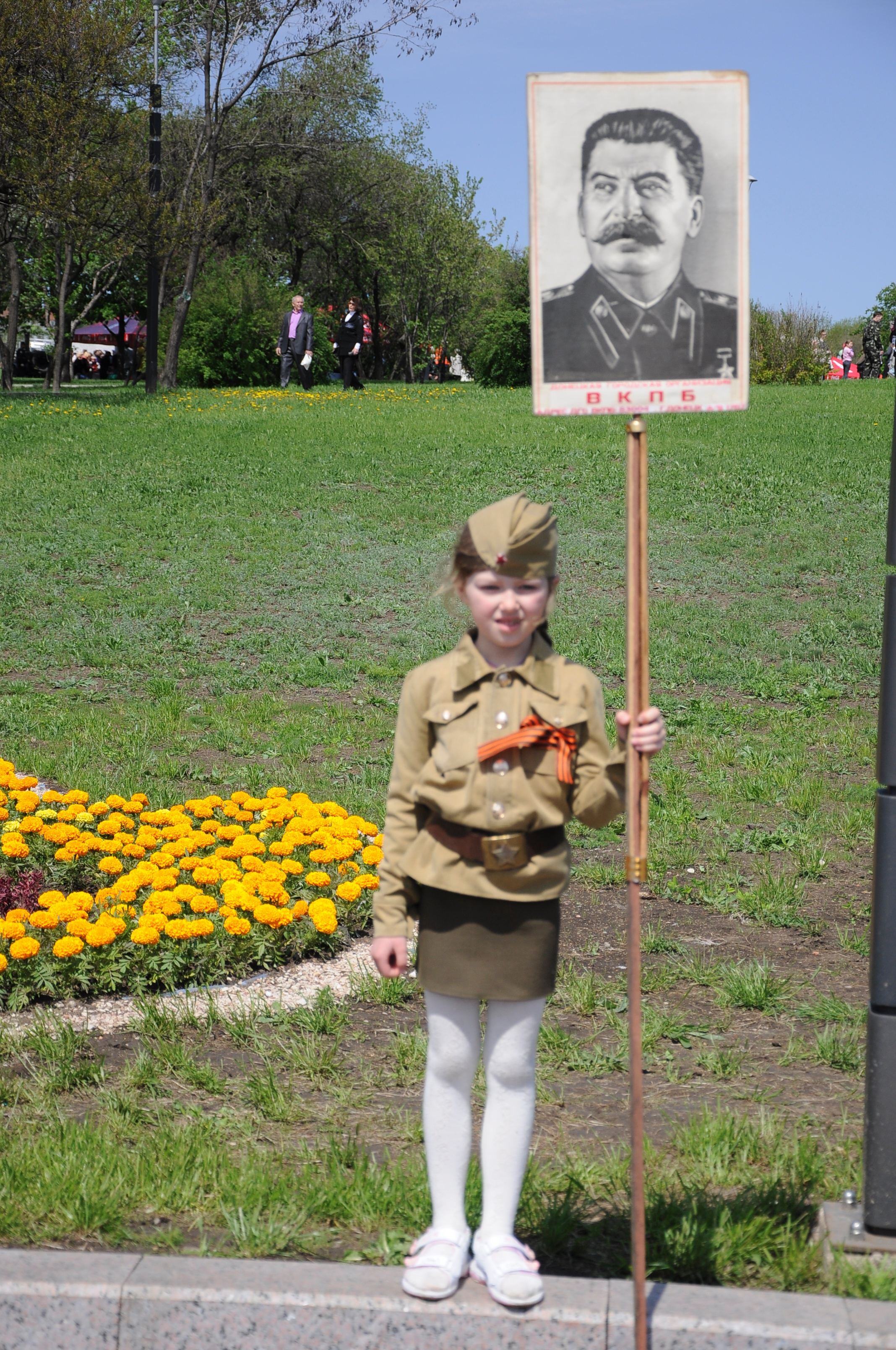 Donetsk. Victory Day.